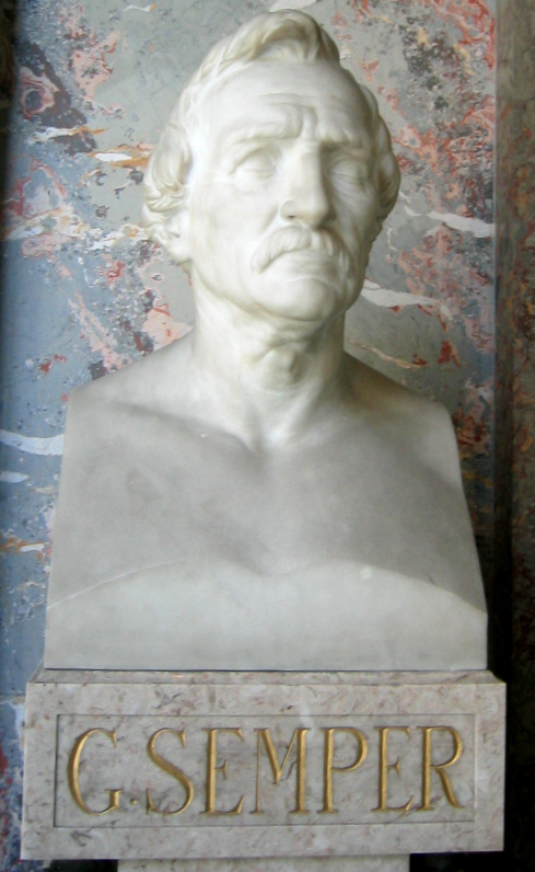 Bust of architect Gottfried Semper Wien, Austria